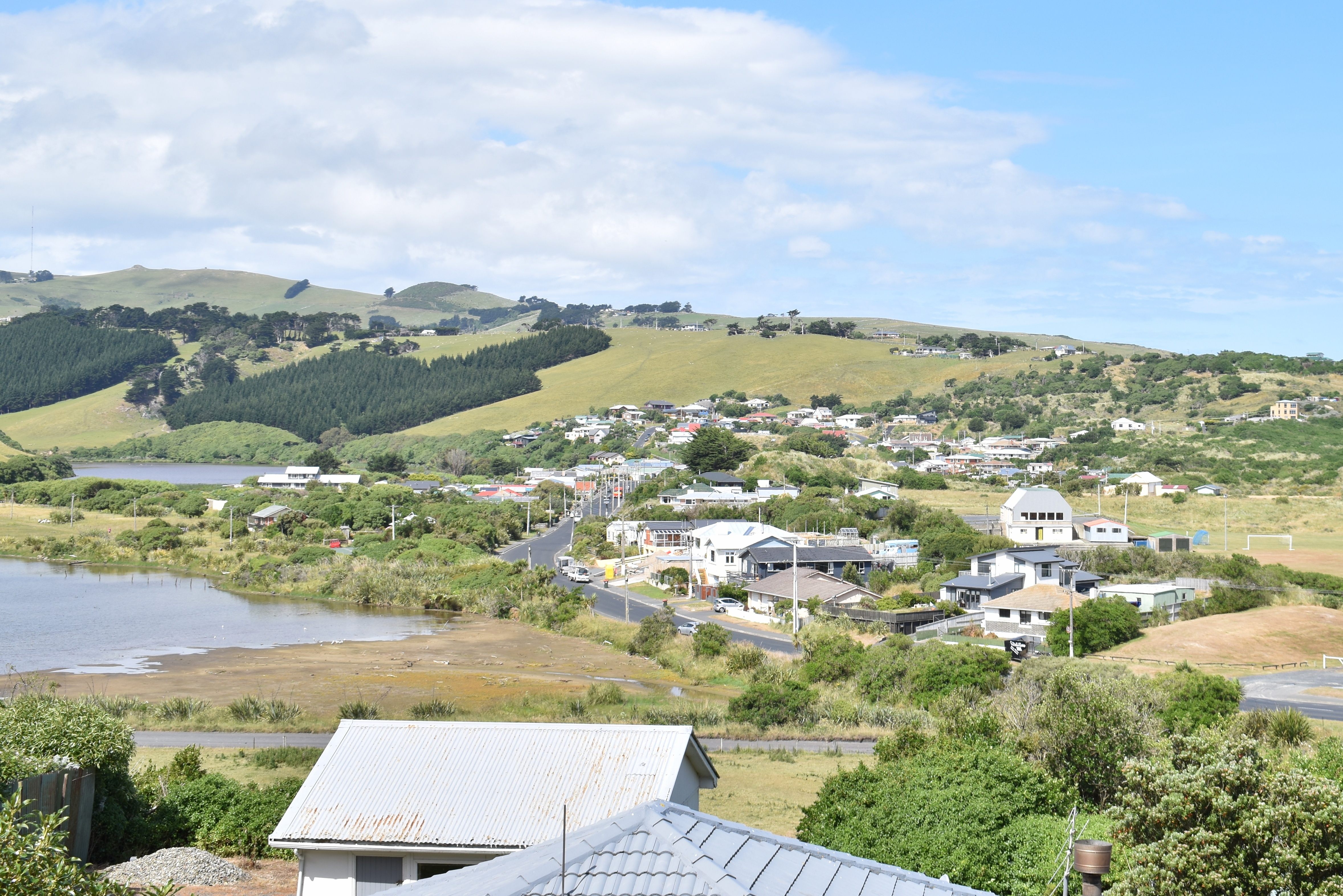 Overlooking Ocean grove with the Top and Bottom Lagoons visile on the left hand side